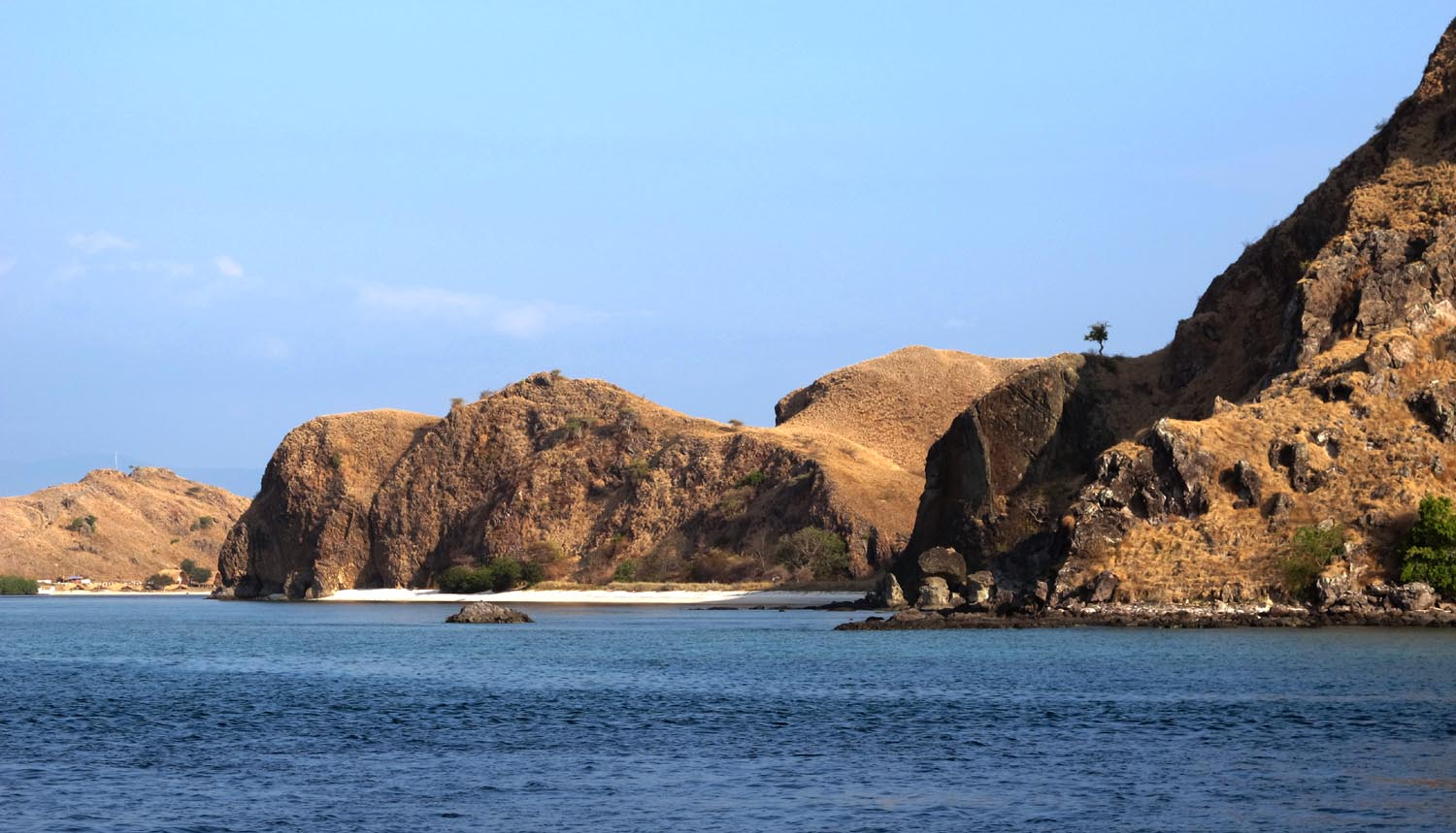 Nusa Tenggara Timur, Indonesia